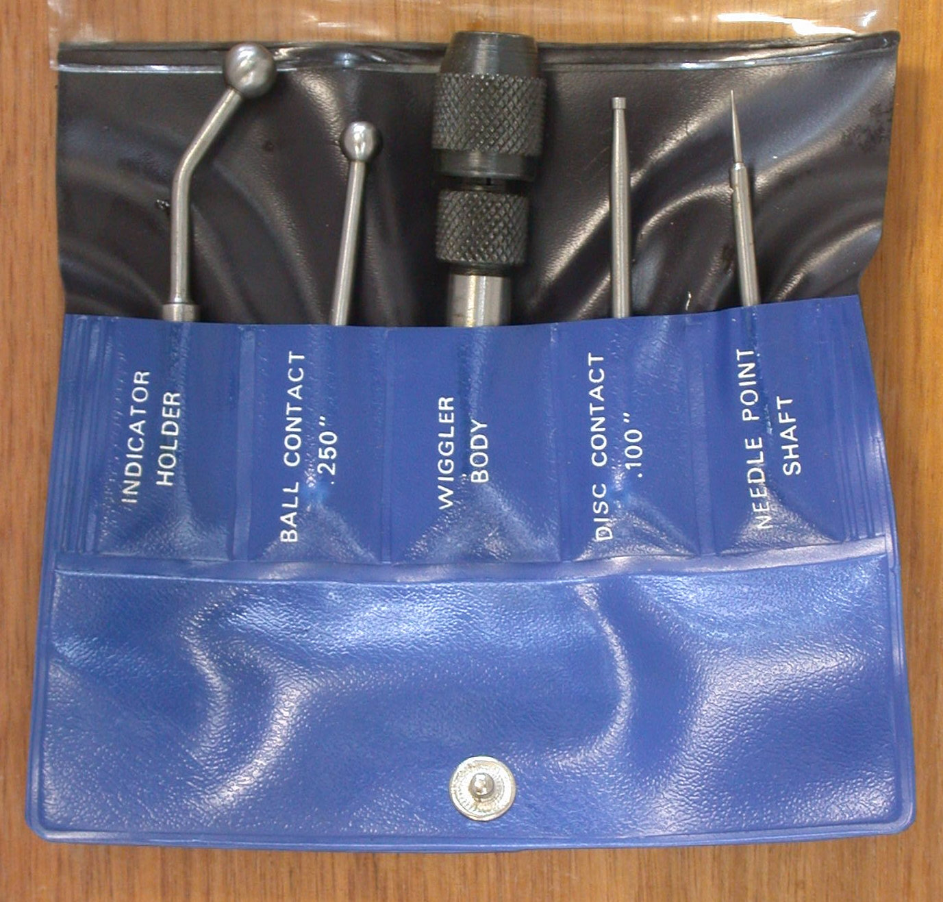 Photograph taken by Glenn McKechnie on the 24th March 2005.